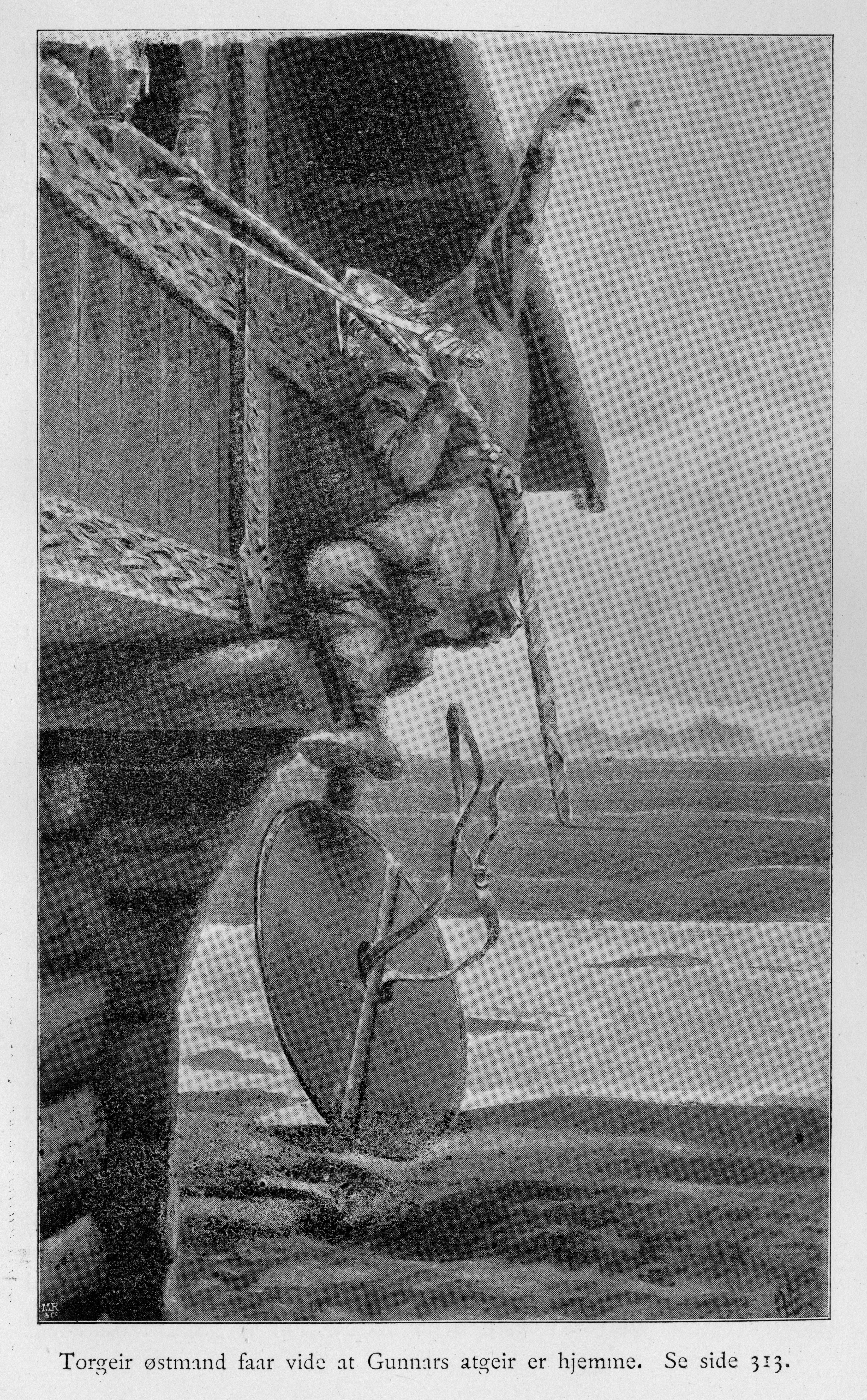 From Njáls saga: Þorgrim get stabbed by Gunnar's atgeira. Illustration from "Vore fædres liv" : karakterer og skildringer fra sagatiden / samlet og udggivet af Nordahl Rolfsen ; oversættelsen ved Gerhard Gran., Kristiania: Stenersen, 1898.